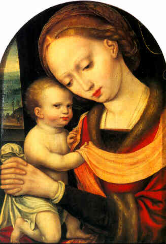 Virgin and Child